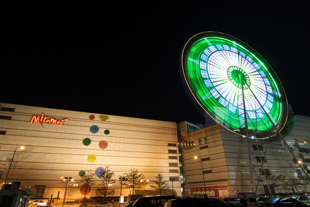 Miramar Entertainment Park with its Ferris Wheel.